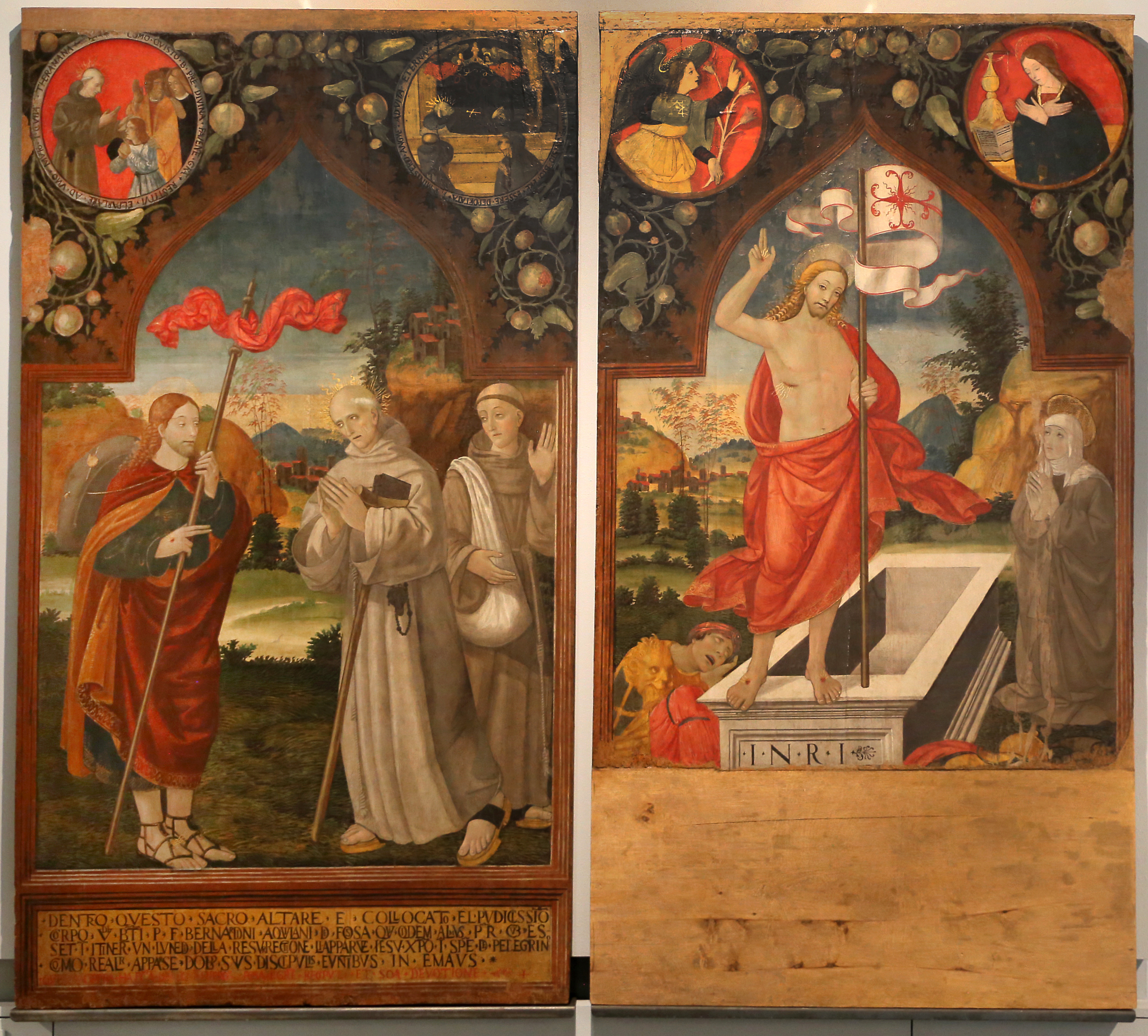 Beato Bernardino da Fossa and Resurrection by Francesco da Montereale